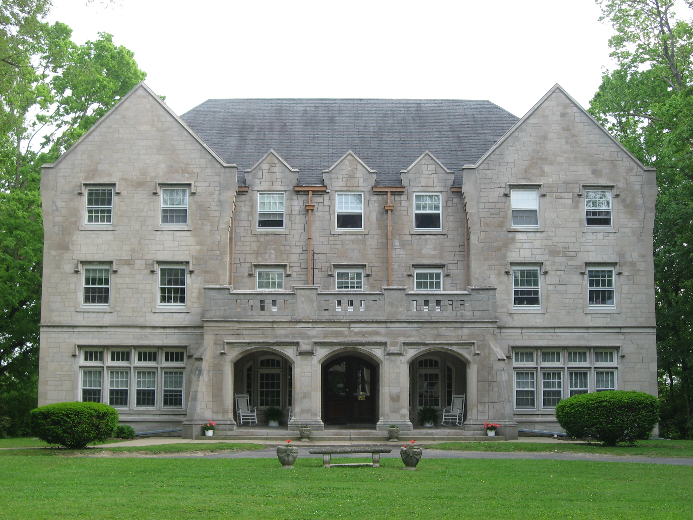 Front of the Delta Kappa Epsilon Fraternity House, located at 620 E. Anderson Street in Greencastle, Indiana, United States. Built in 1925, it is listed on the National Register of Historic Places, and it is part of the Eastern Enlargement Historic District, a Register-listed historic district.